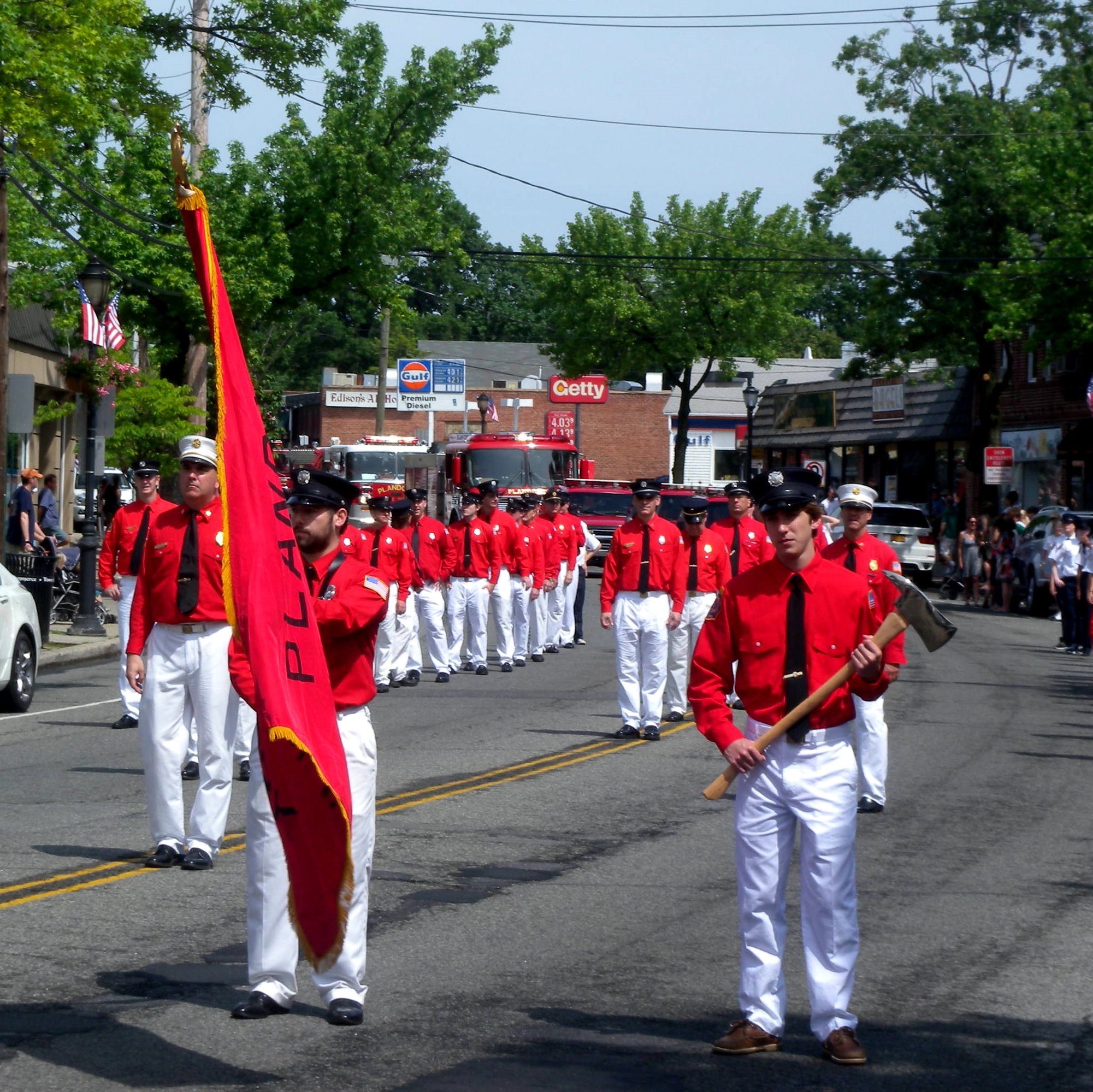 Looking northwest with long zoom as members of Plandome Fire Department pause in Manhasset's Memorial Day Parade.